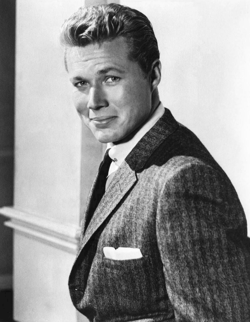 Photo of actor John Smith. The film's original title was Mock Trial. The title was changed to Handle With Care and it was released in 1958.